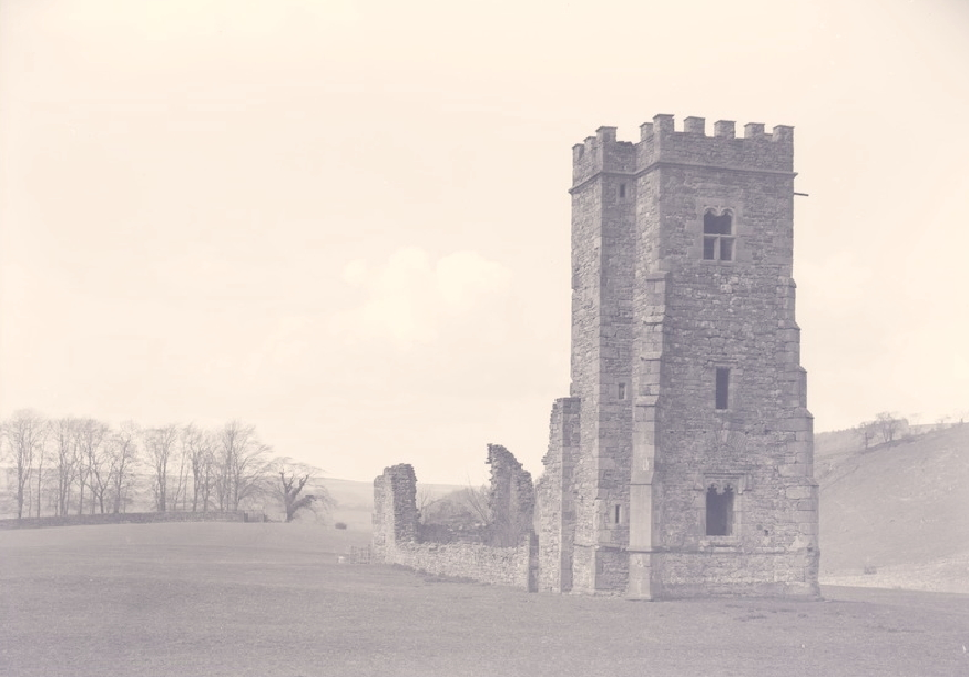 Ellerton Priory